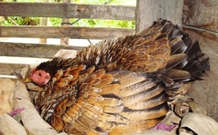 Hens were incubating eggs.